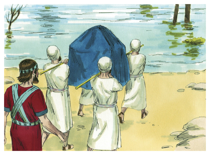 Biblical illustration of Book of Joshua Chapter 3